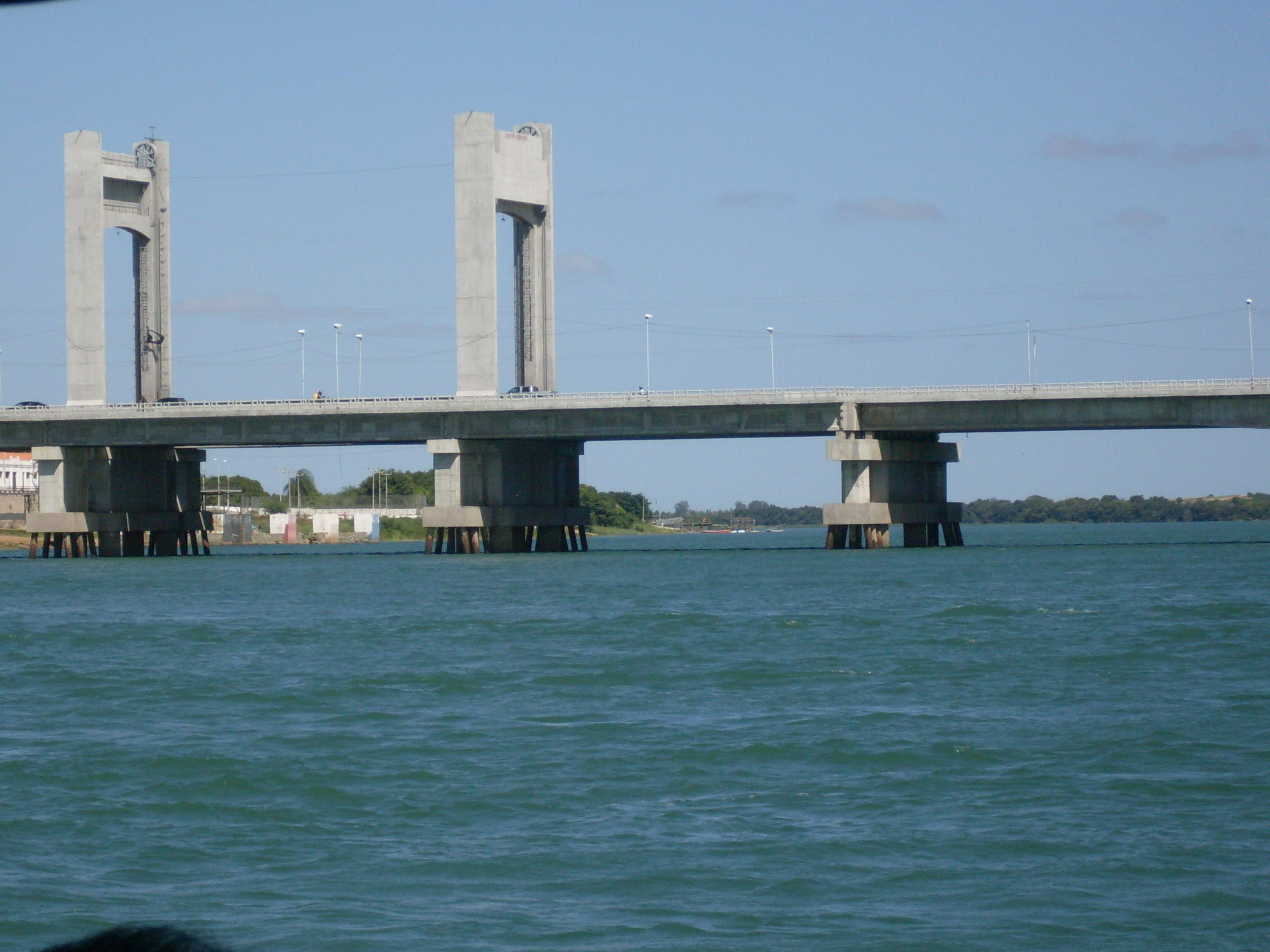 Juazeiro - State of Bahia, Brazil